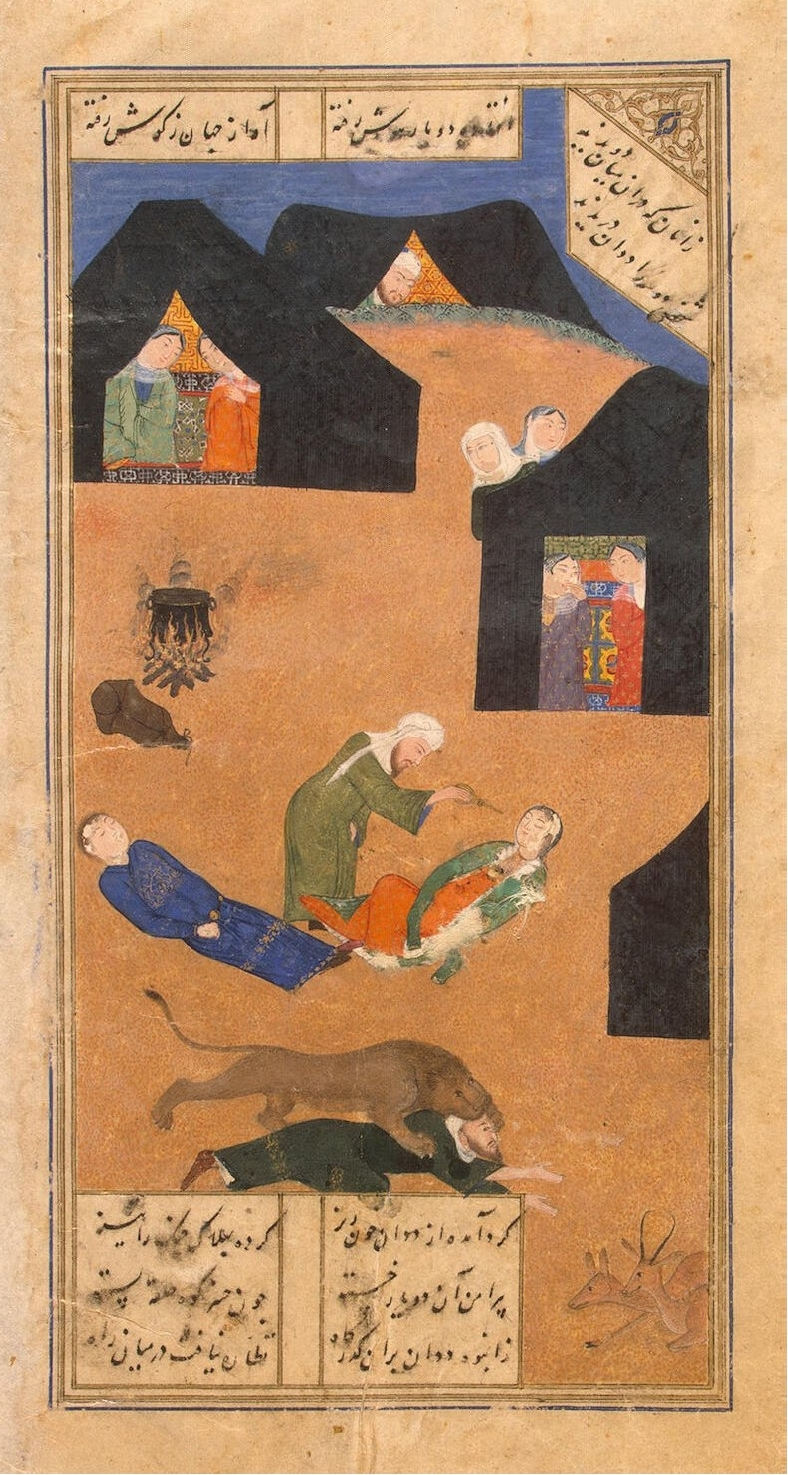 Illumination from Khamsa, an anthology of five poems by the 12th-century poet Nizami. In 1431 this manuscript of the Khamsa was copied out in Herat by the calligrapher Mahmud for Sultan Shahrukh. (timurid period) The tale of Layla and the passionate Majnun: The love of Layla and Majnun was so strong that they fainted with emotion when they met. An old man wants to bring them to consciousness. A lion attacks another man who tried to come near.